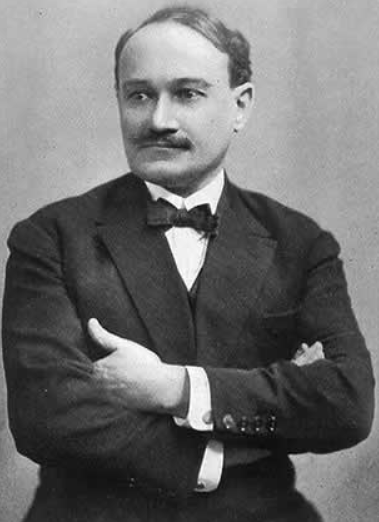 The psychical researcher Eugene Osty.